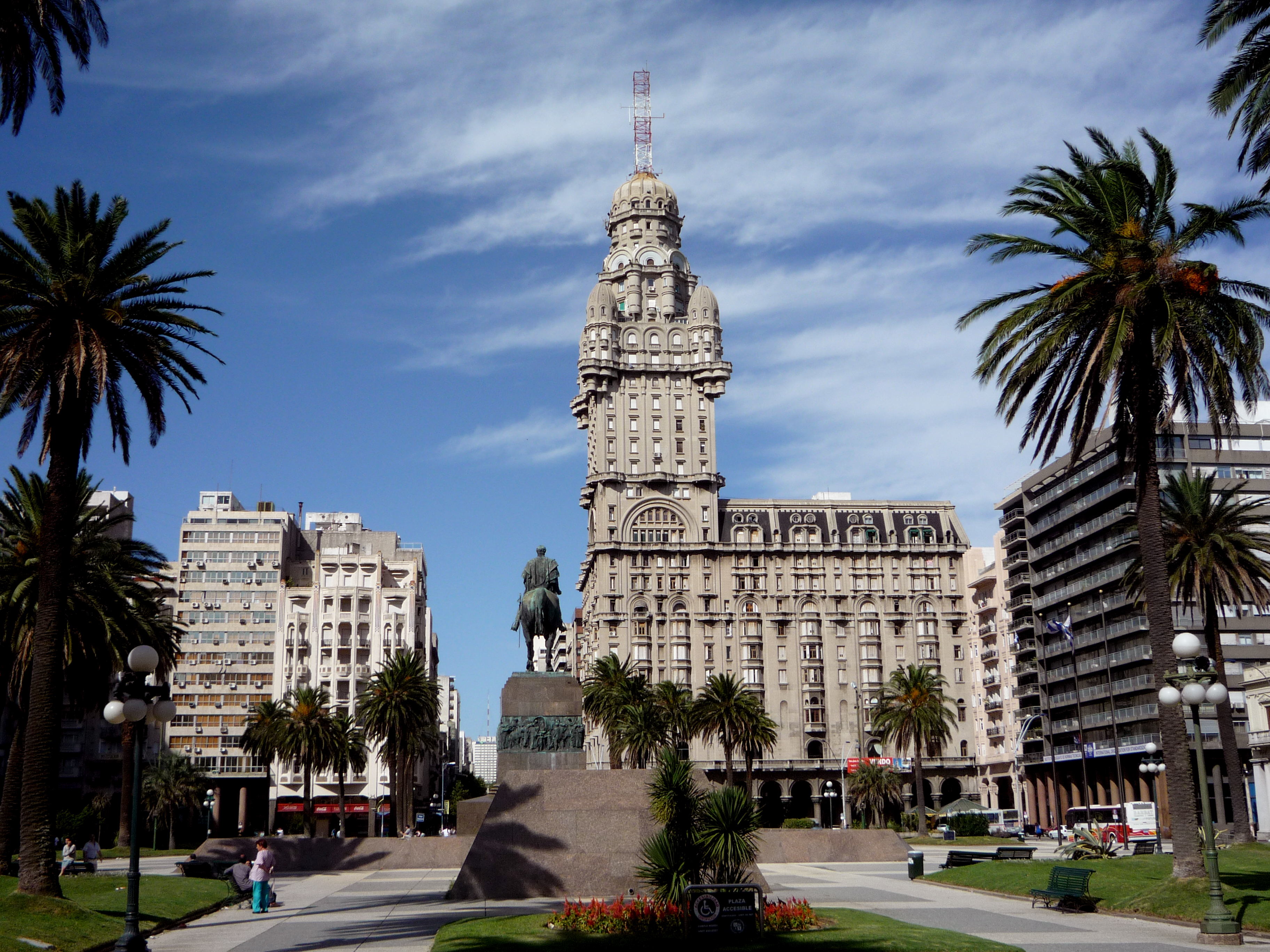 Plaza Independencia in Montevideo, Uruguay